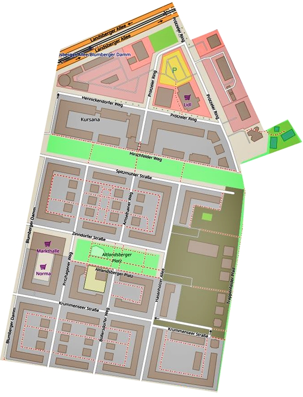 This map may be incomplete, and may contain errors. Don't rely solely on it for navigation.